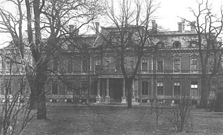 Branicki Palace, French ambassy before WW2.